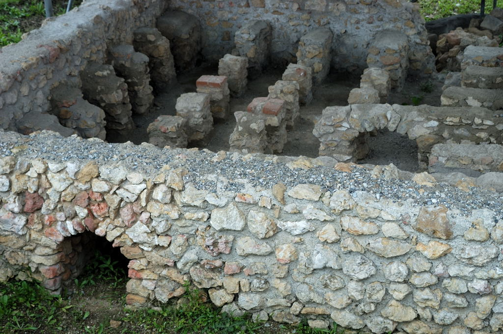 Foundations of a private house in Flavia Solva showing hypocaust heating, Austria